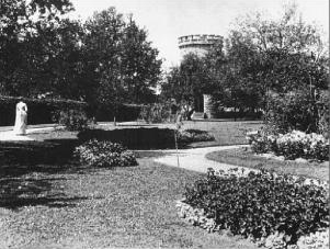 An 1890 photograph of golf course architect and socialite Ida Dixon at her Wallingford, Pennsylvania, mansion.